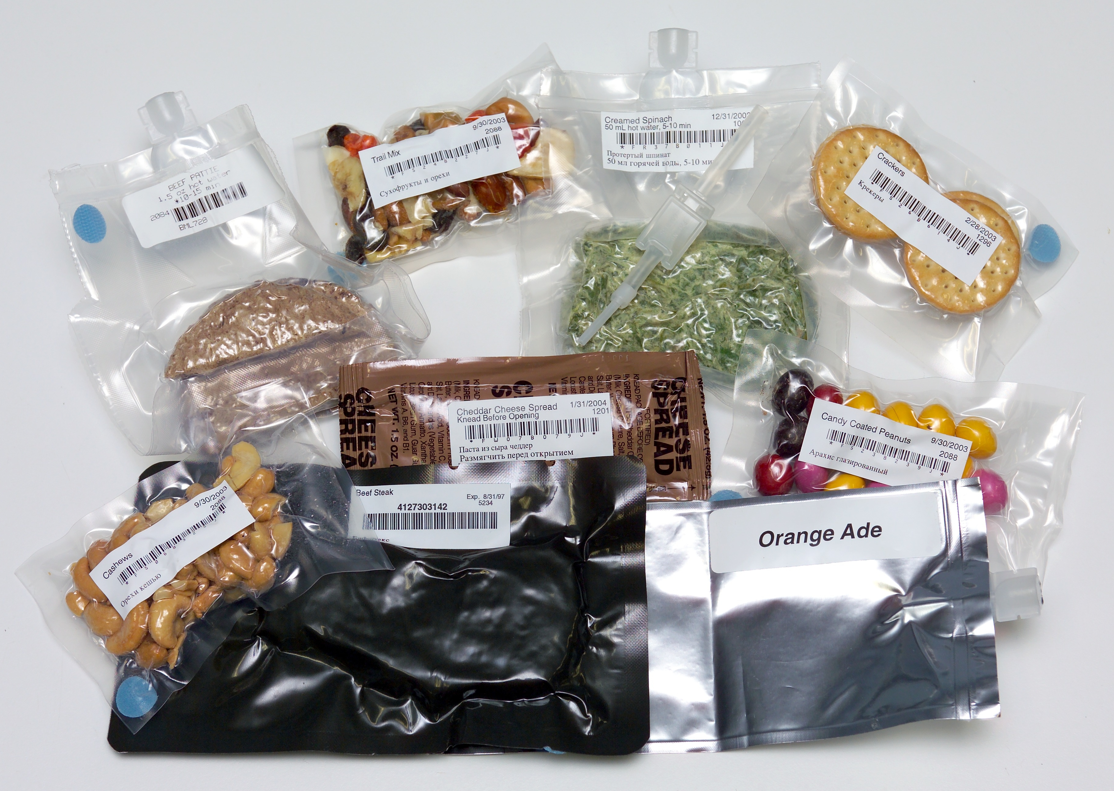 Assorted bags of snack food and dehydrated food, as served on the ISS. cropped from the original provided by NASA